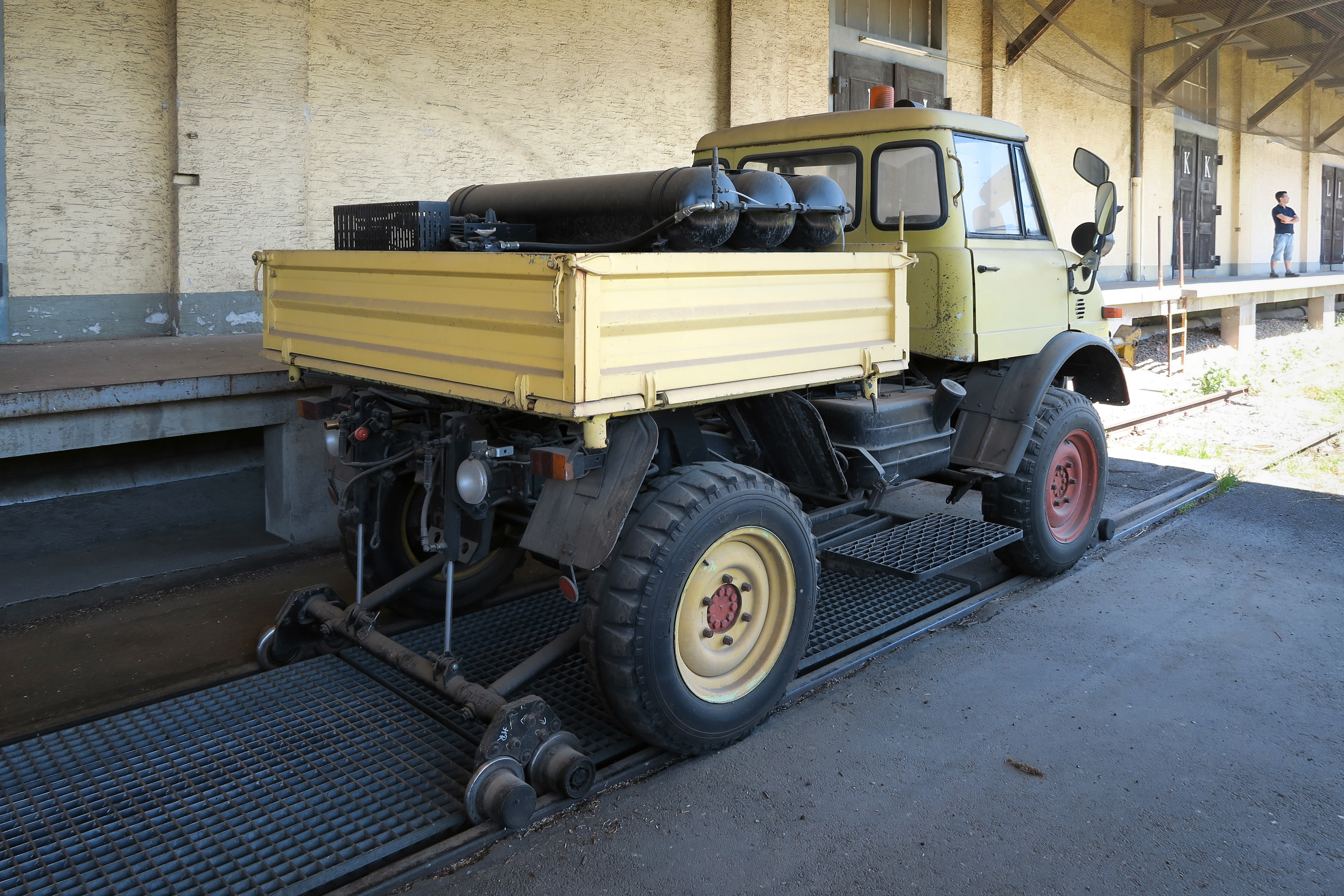 The compressor unit for controlling the brakes of the freight cars is on the loading bridge of the truck. Sabo Oil in Horn, Switzerland, June 23, 2016. (3/4)